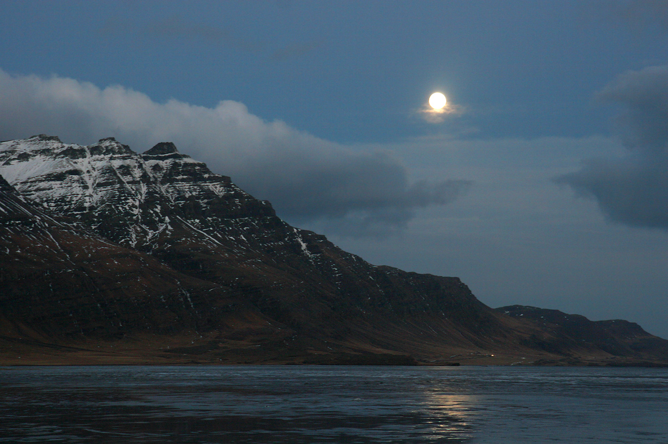 Hnúta, north across Álftafjörður, November 23 17:35 Iceland, November 2007 Photo by me user:debivort (or friend, with permission given to freely license photo).